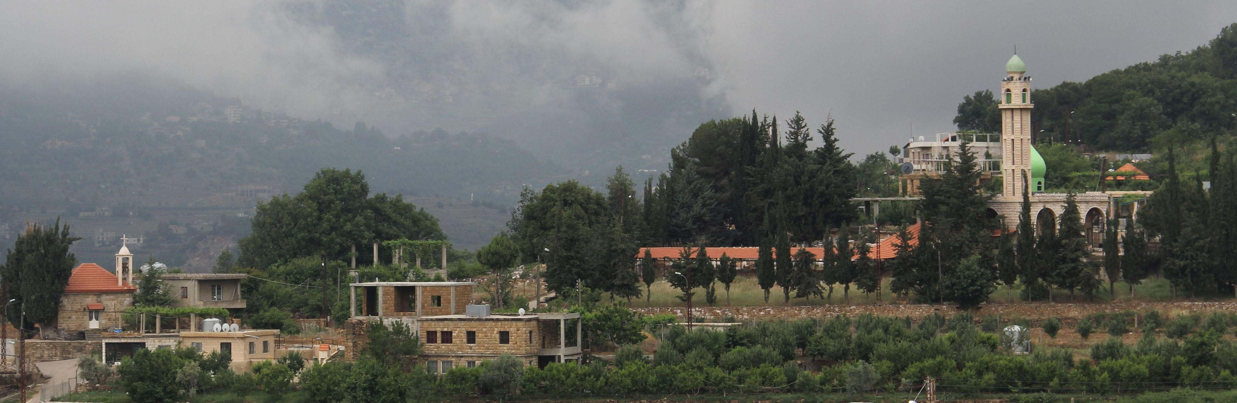 منازل الله